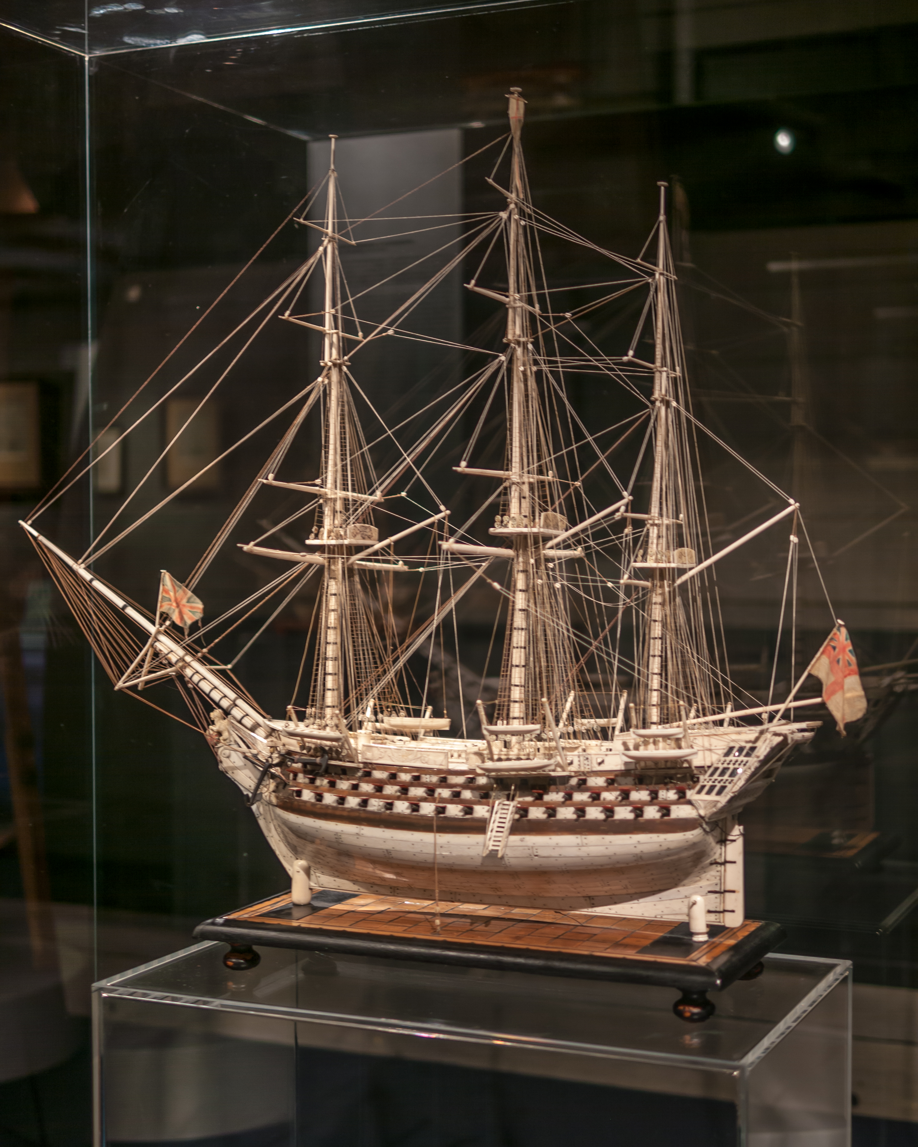 Model of a warship made from bones